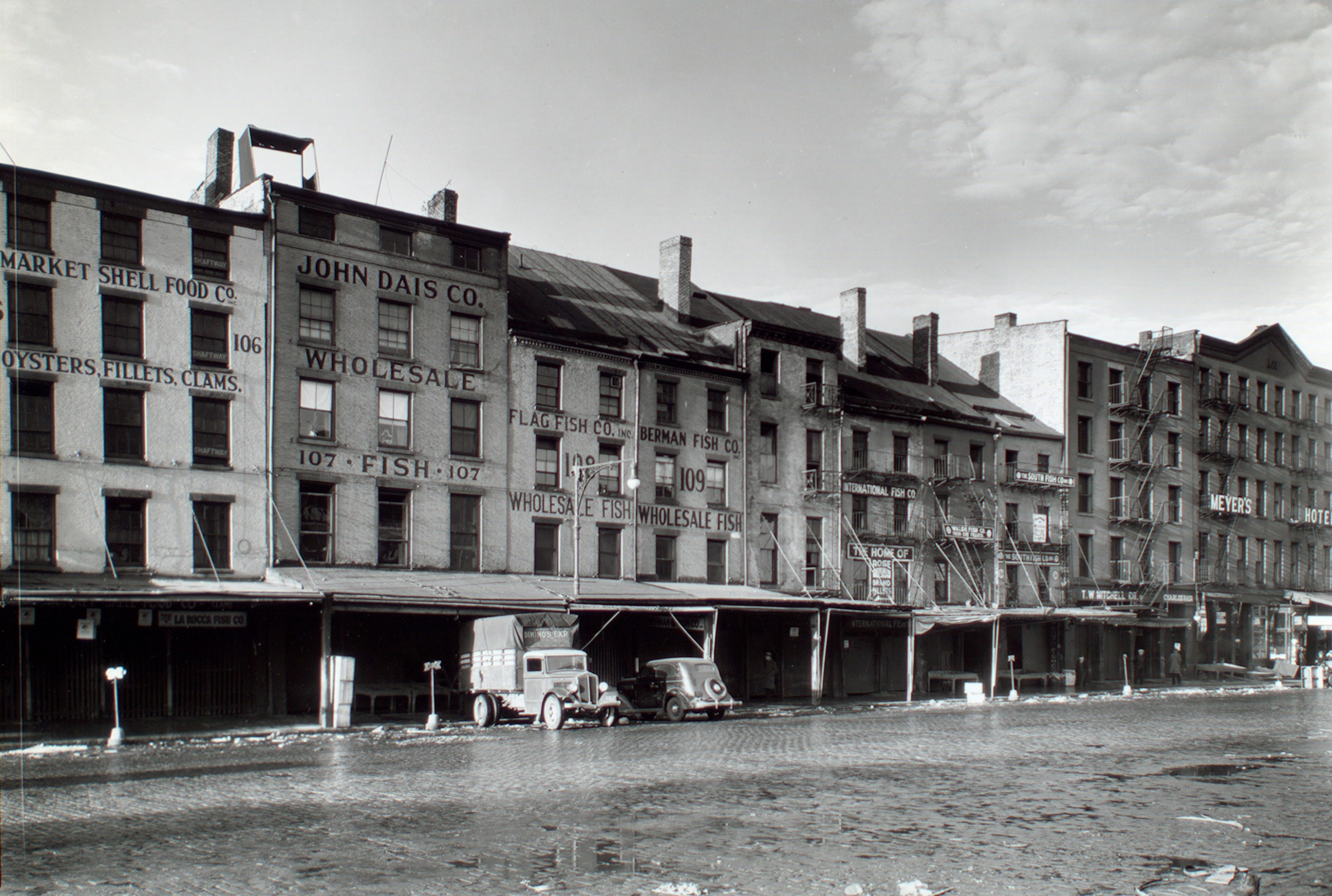 Fish dealers and the Meyers Hotel in row of buildings along South Street. Citation/Reference: CNY# 50 Code: I.A.3.